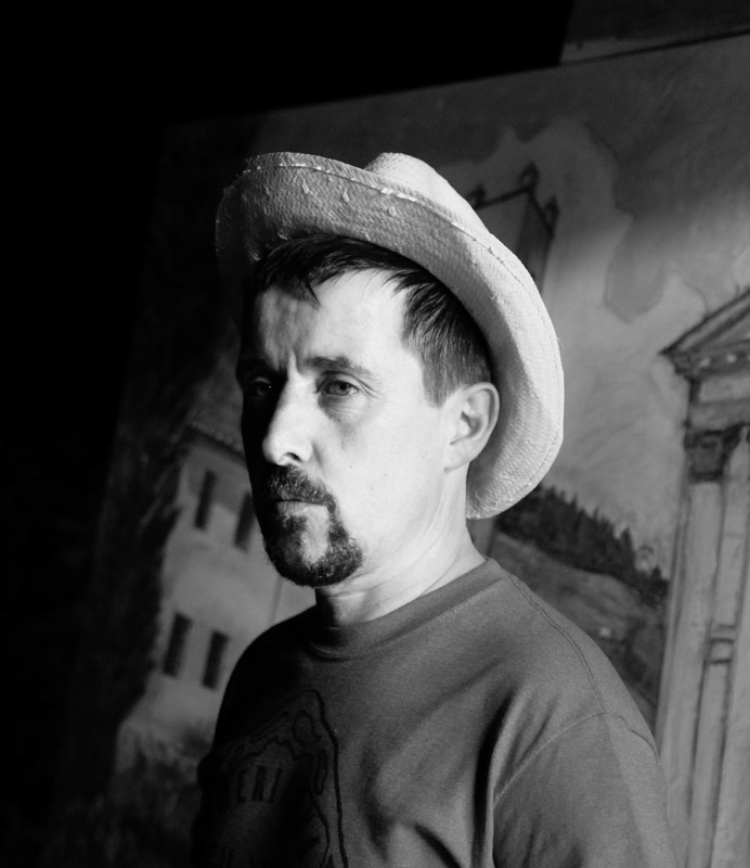 black and white portrait of martin finnin